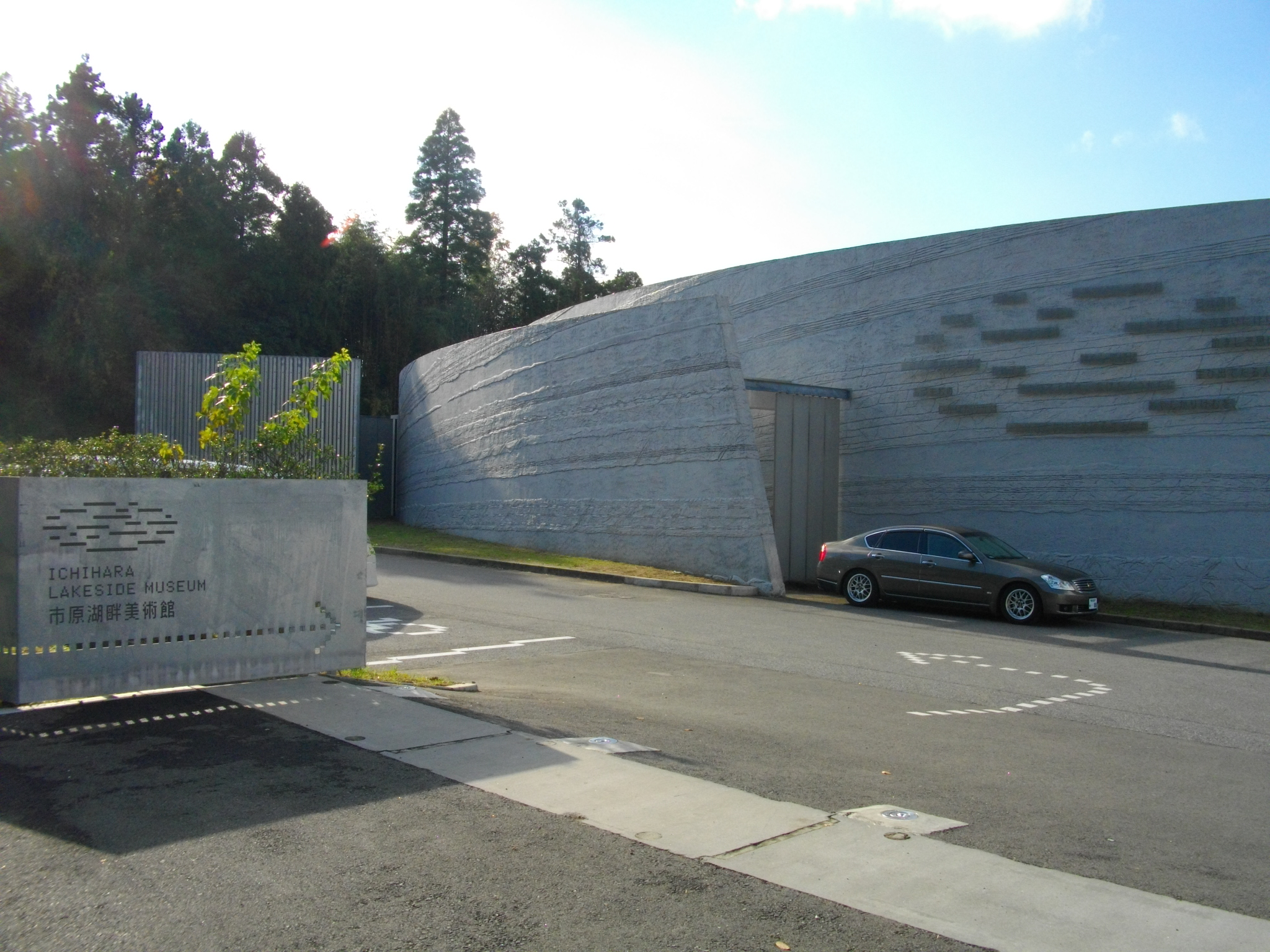 Ichihara Lakeside Museum